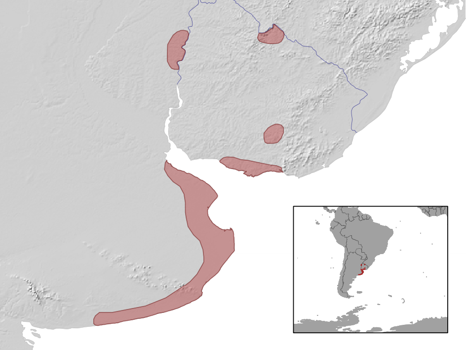 geographic distribution of Physalaemus fernandezae